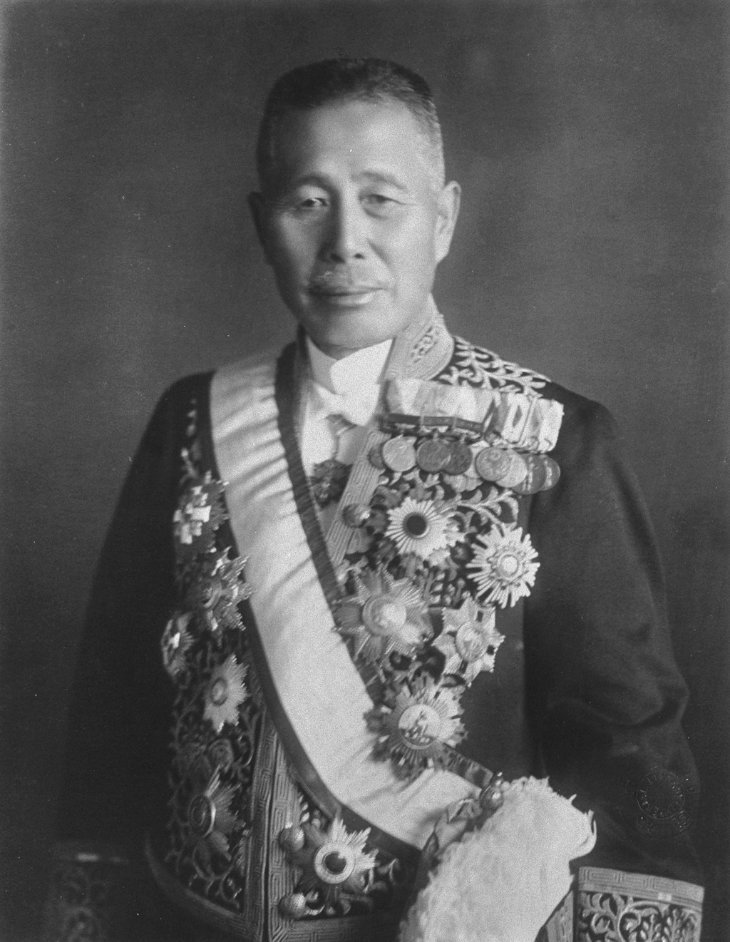 Portrait of Tanaka Giichi (田中義一, 1864 – 1929)